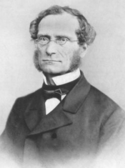 Swiss classical scholar Wilhelm Vischer (* 30. Mai 1808, † 05. Juli 1874)